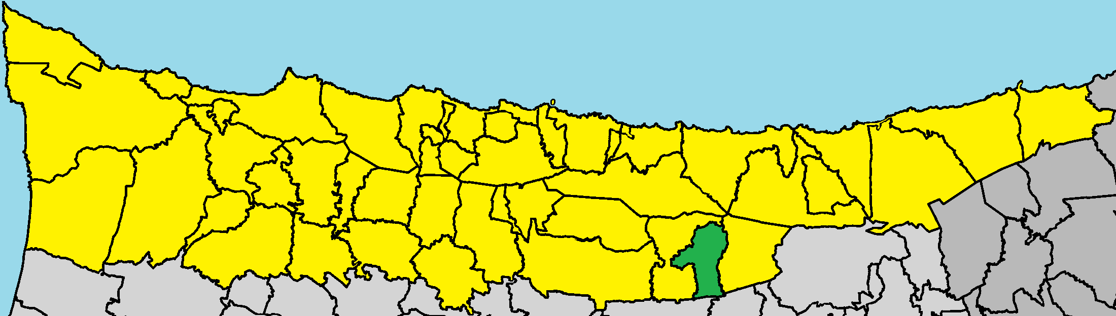 Vouno Keryneias in Kyrenia District (de jure).